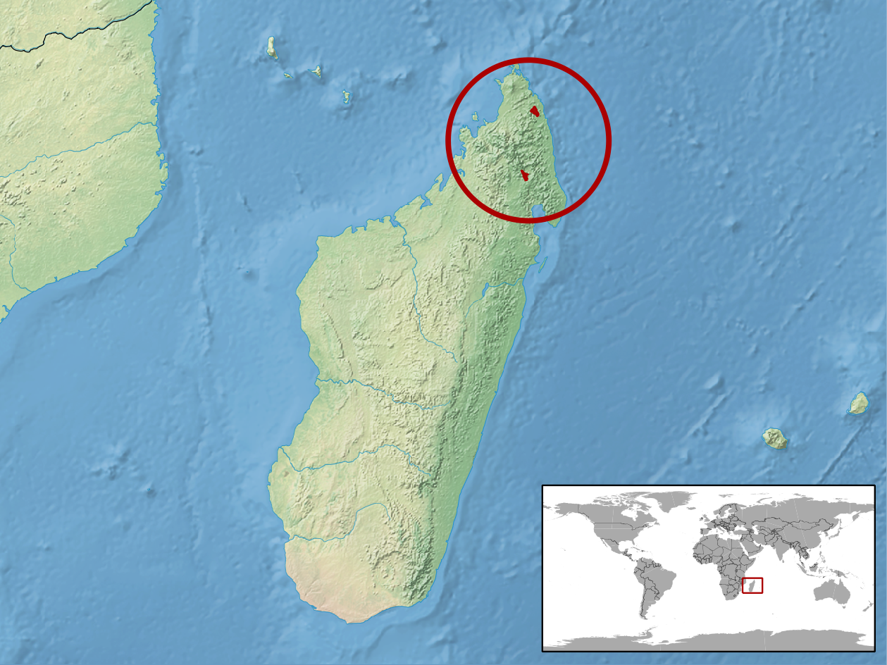 geographic distribution of Paracontias hafa